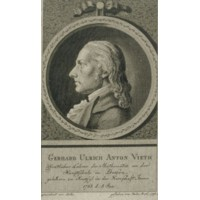 German Gymnastics Educator Gerhard Ulrich Anton Vieth (1763-1836)